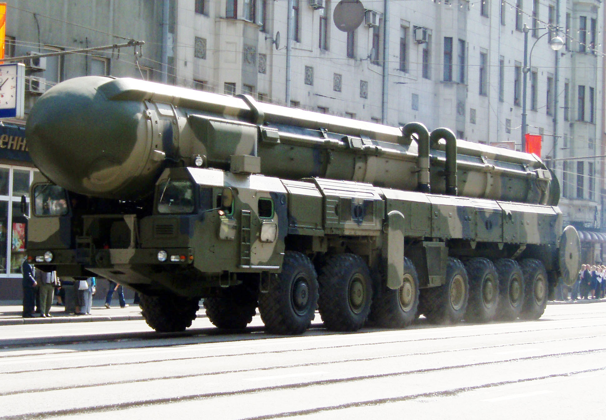 Victory Day Anniversary Parade dress-rehearsal, Tverskaya Street, Moscow, Russia, May 5, 2008., MBR Topol